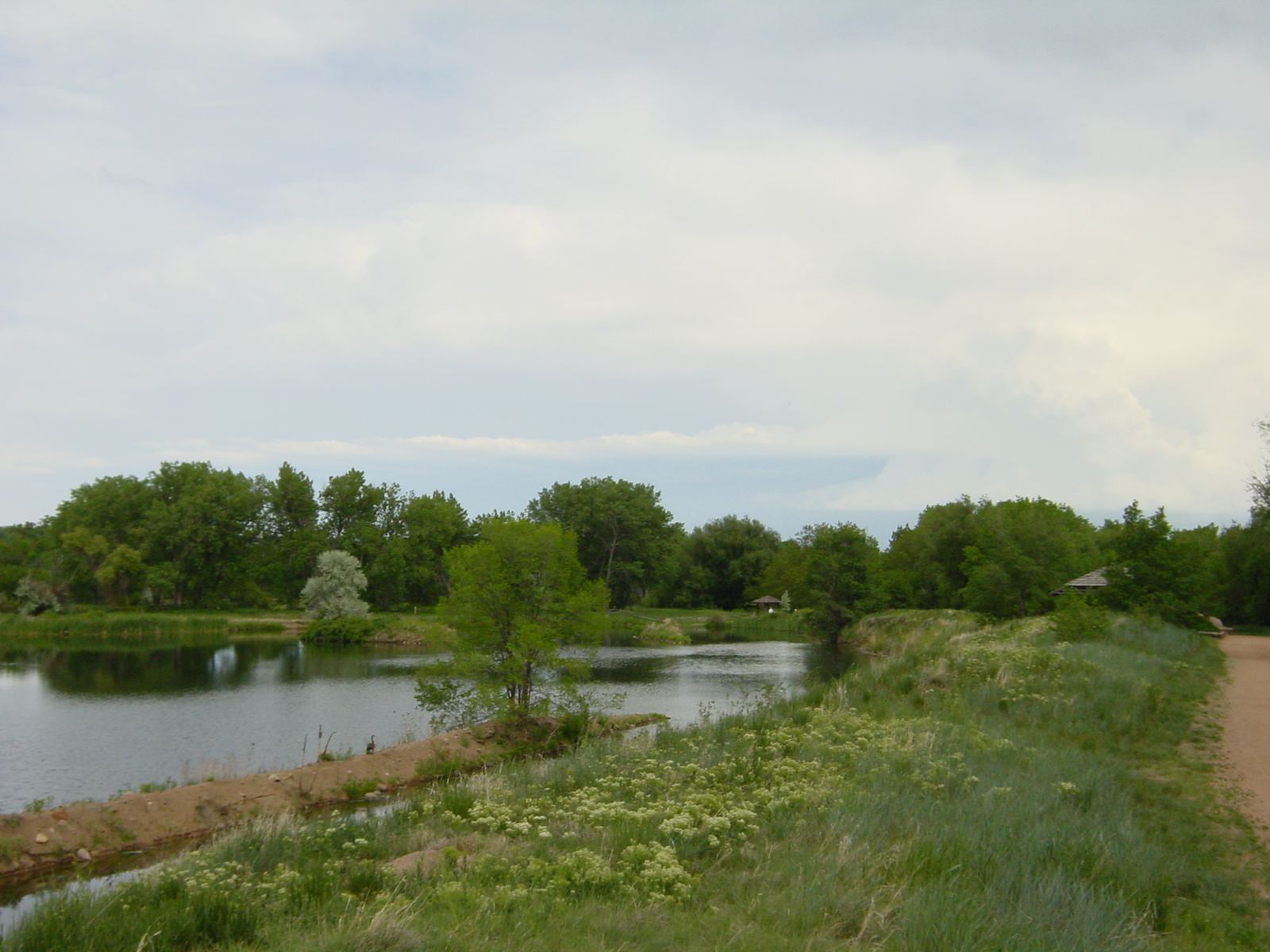 Fountain Creek in Fountain Creek Park, Fountain, CO